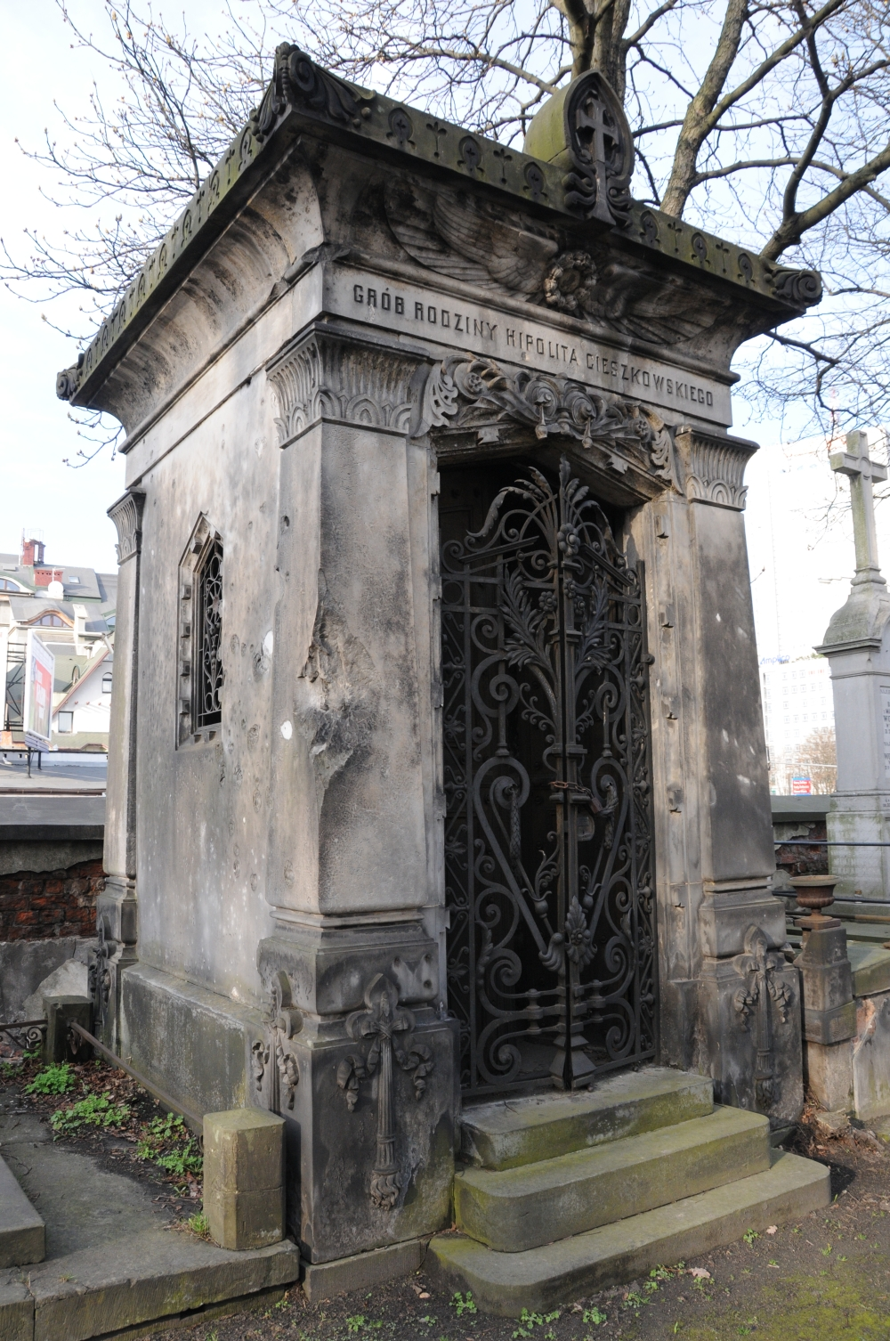 Family tomb of Hipolit Cieszkowski. Powązki Cemetery, Warsaw.